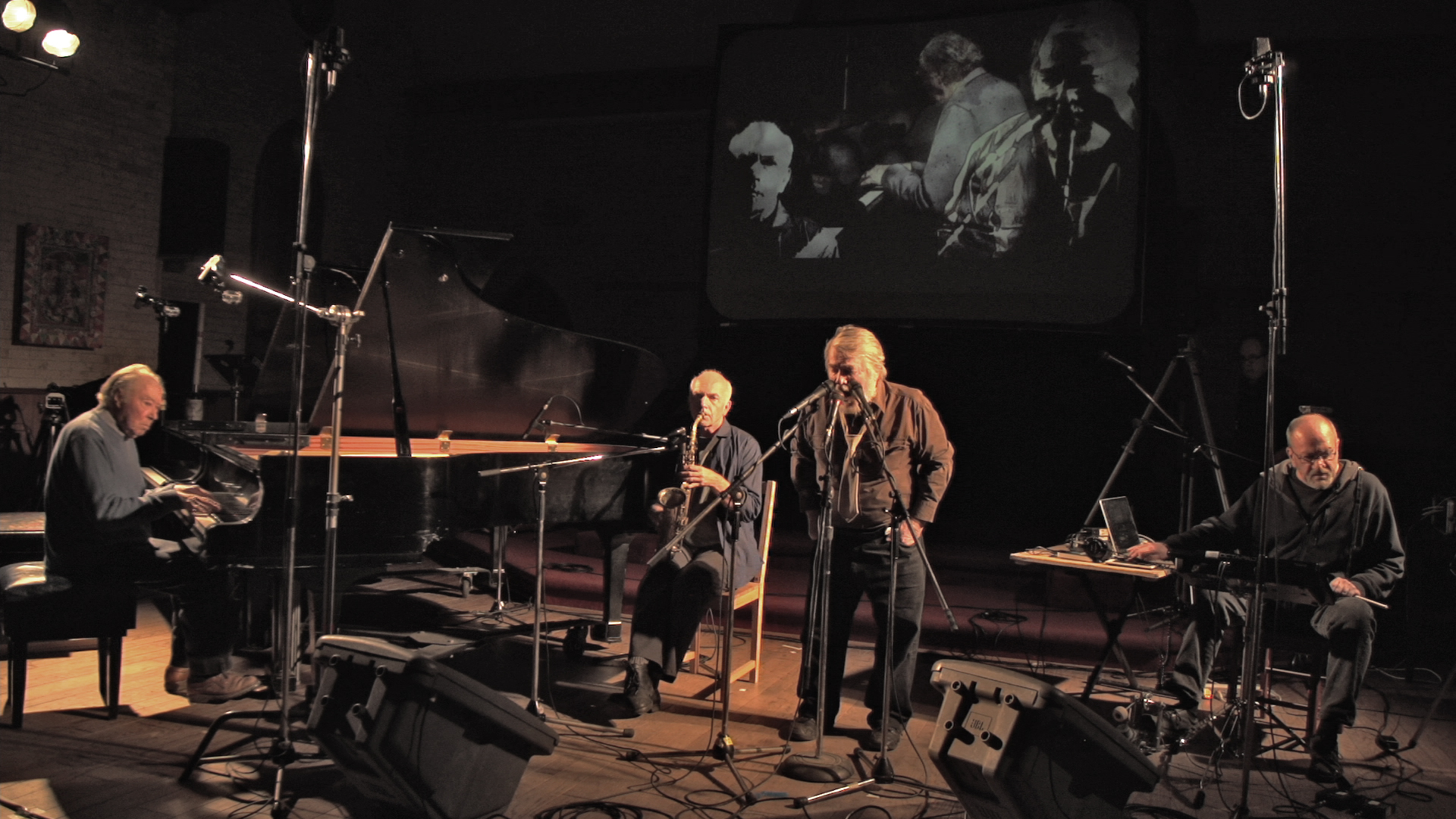 CCMC at the Music Gallery, Toronto, Ontario. 2015. Photo by Laurie Kwasnik